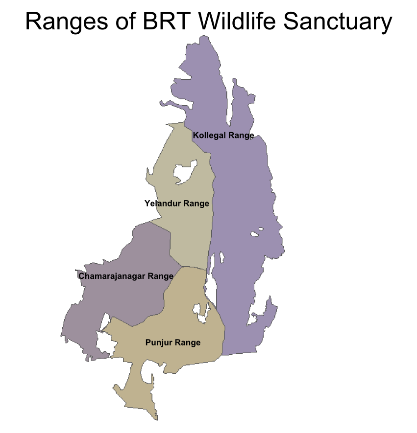 The base map showing the ranges of the BRT Wildlife Sanctuary is derived from the India Biodiversity Portal - IBP( I have added labels for the ranges. The India Biodiversity Portal provides open and free access of the information available on the portal and uses the CC-Attribution only licence. (